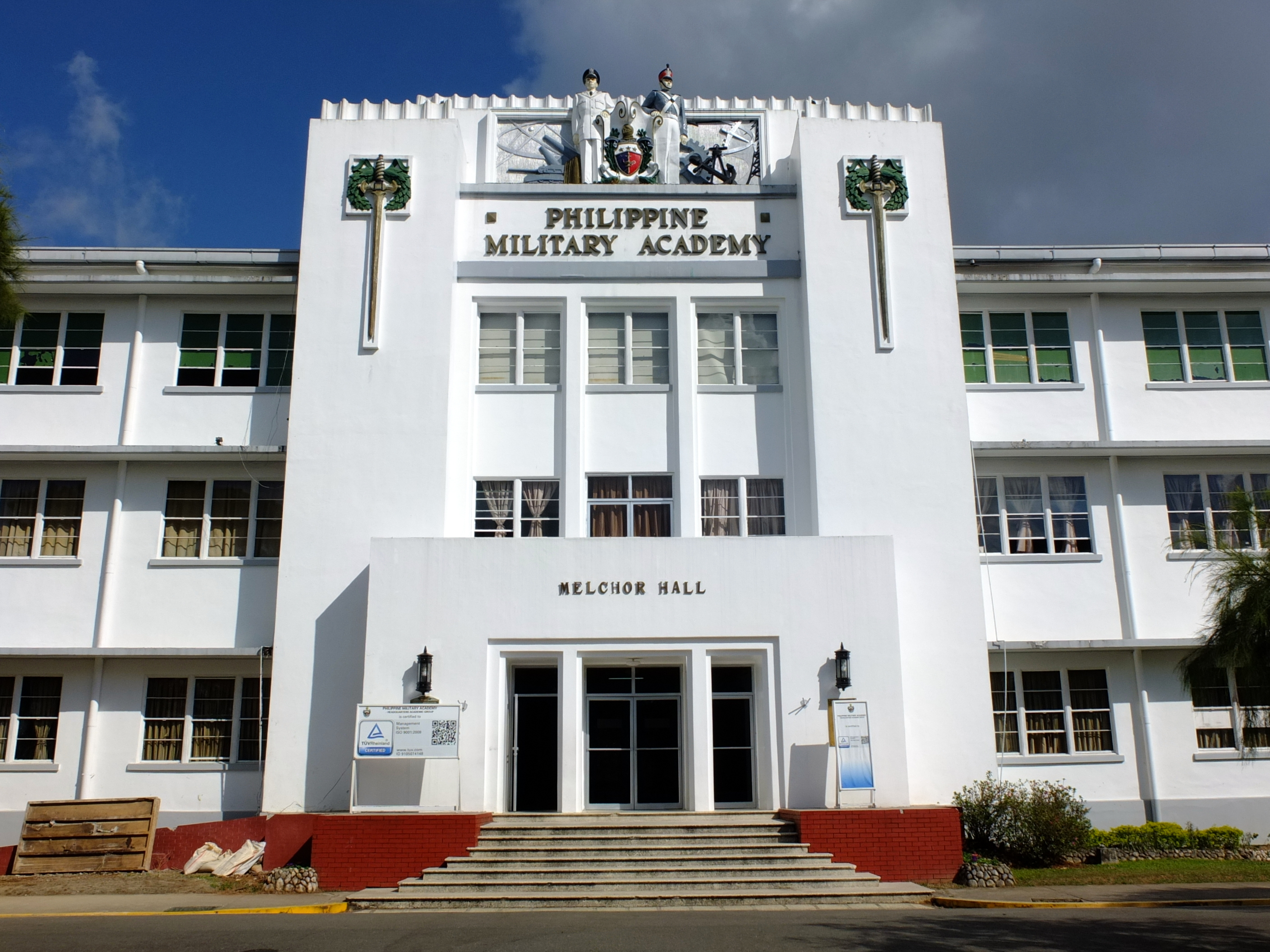 Facade of Melchor Hall, PMA